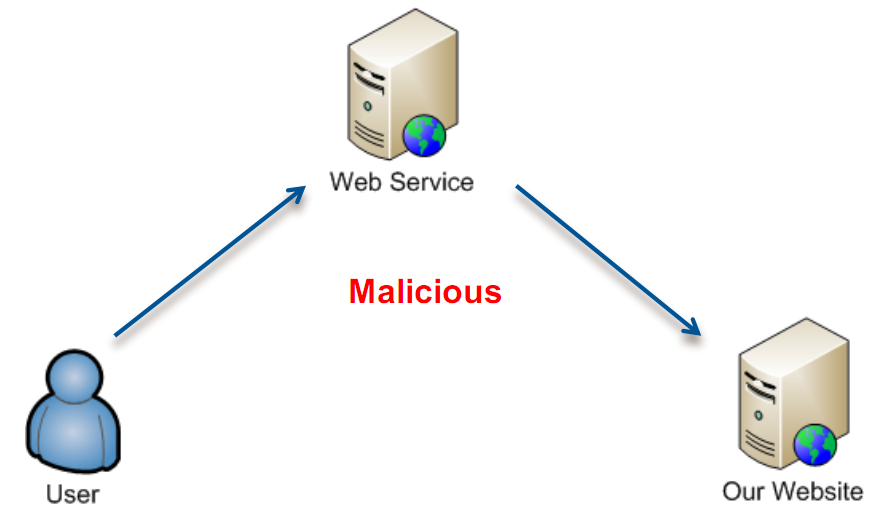 Usage of RDI technique Figure 2